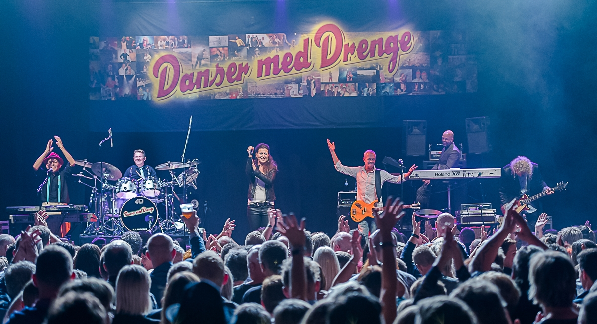 Danish pop-reggae band Danser med Drenge on stage in Horsens Ny Teater 2015. Photo: Flemming Ege